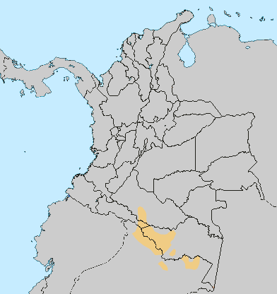 Bora-Witoto language. Sources: Ethnologue: Languages of Peru y Ethnologue: Languages of Colombia